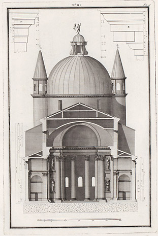 Chiesa del Redentore in Venice by Andrea Palladio. Drawing by Ottavio Bertotti Scamozzi, 1783.